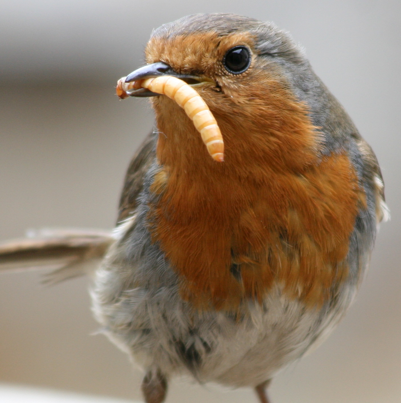 A male European Robin (Erithacus rubecula) with a mealworm. This robin is feeding his second brood of the season.